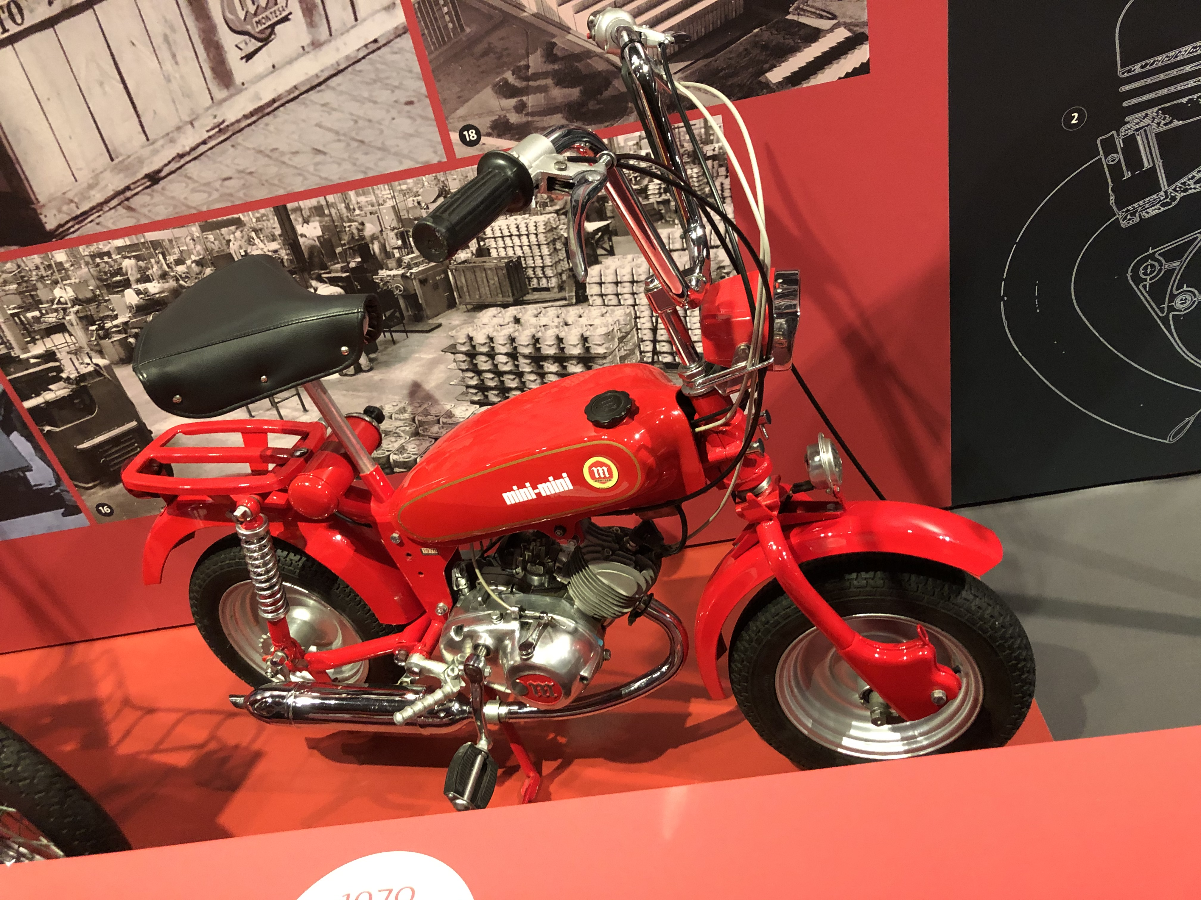 Montesa Mini Mini (1970), Mod. 47M, 48.7 cc